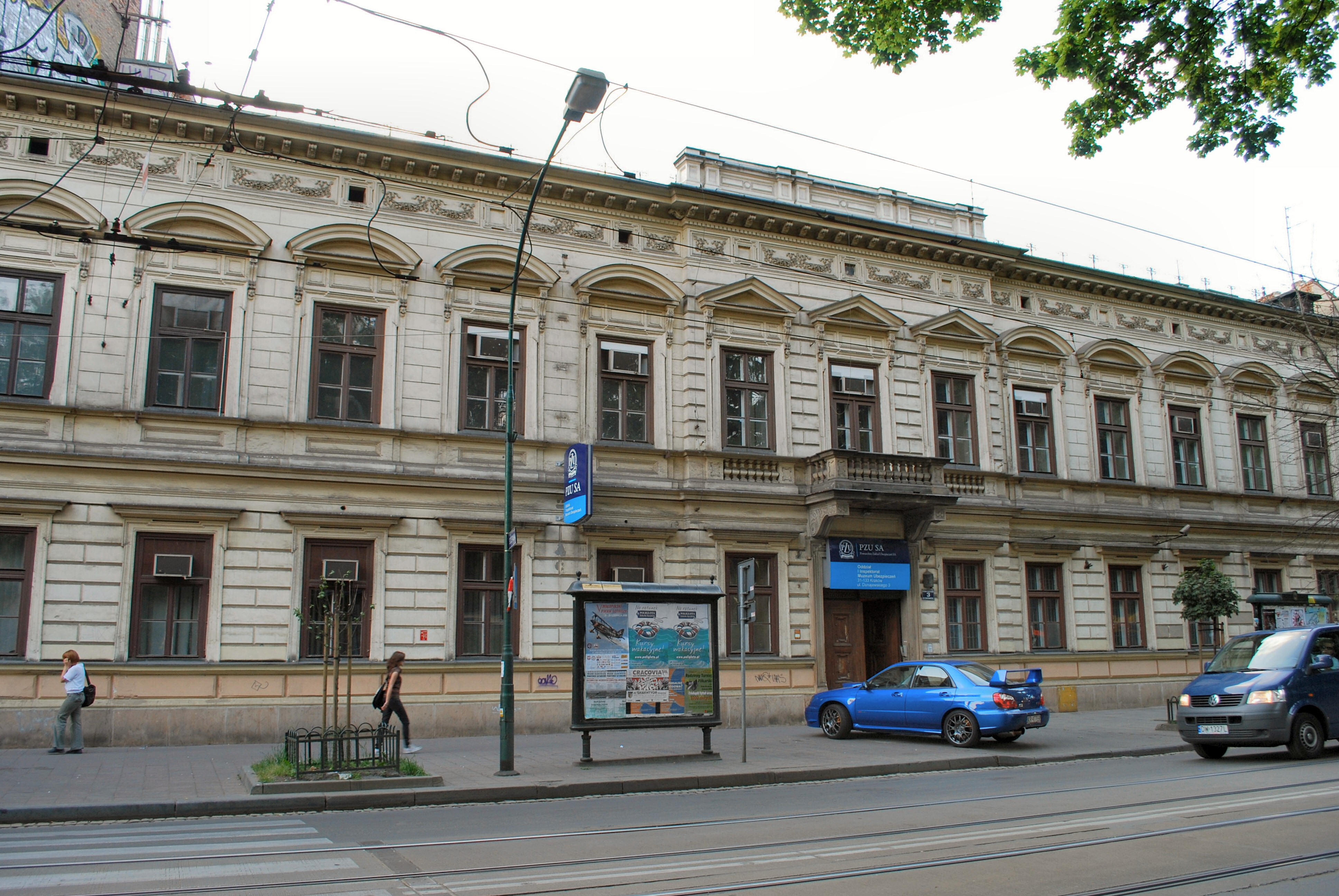 Building of the Insurance Museum